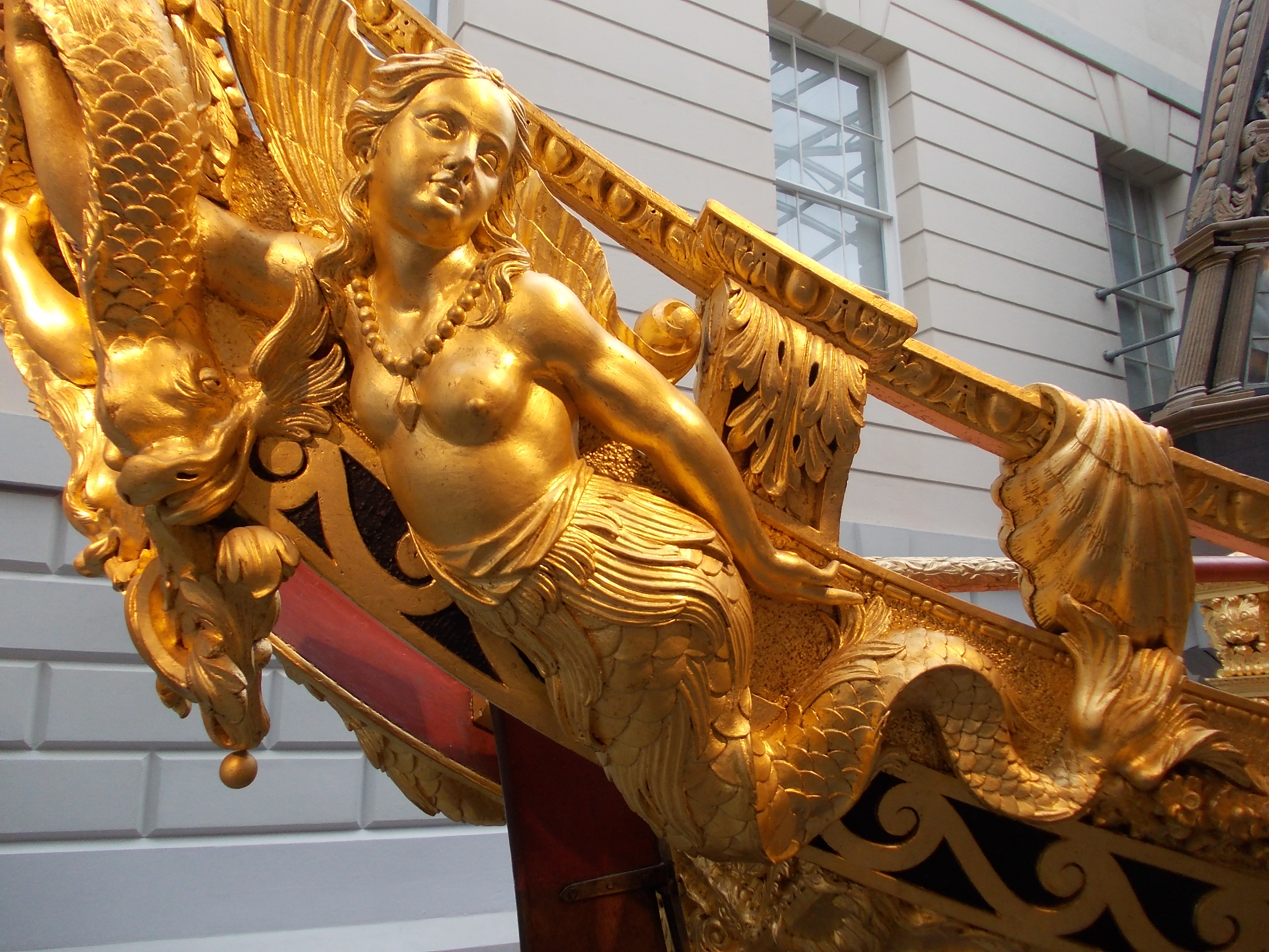 Part of figurehead of Prince Frederick's Barge. Carved decorative work by James Richards, 1731-1732. National Maritime Museum, Greenwich.